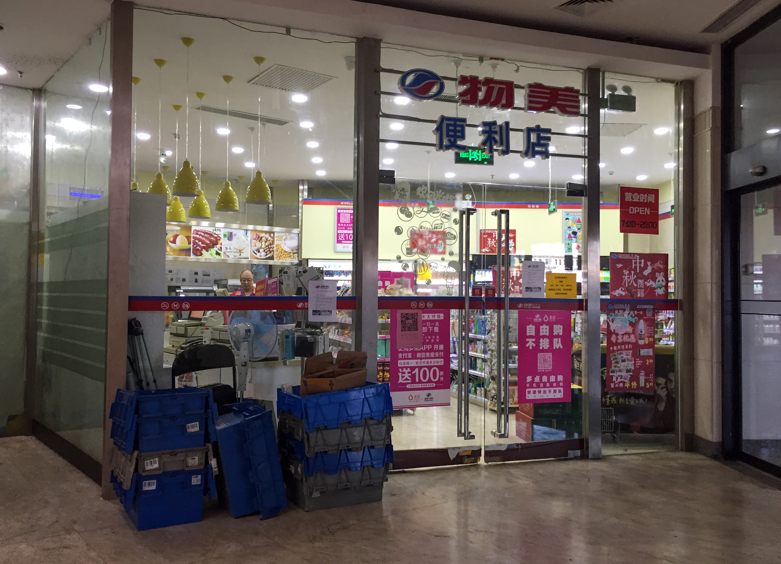 Hey I saw a convenience store... nearer to Lianhua Bridge, kinda perfect for train spotters.